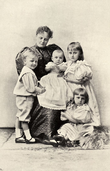 Princess Adelaide of Saxe-Meiningen with children (George III - first from the left, Bernard IV - on her lap)